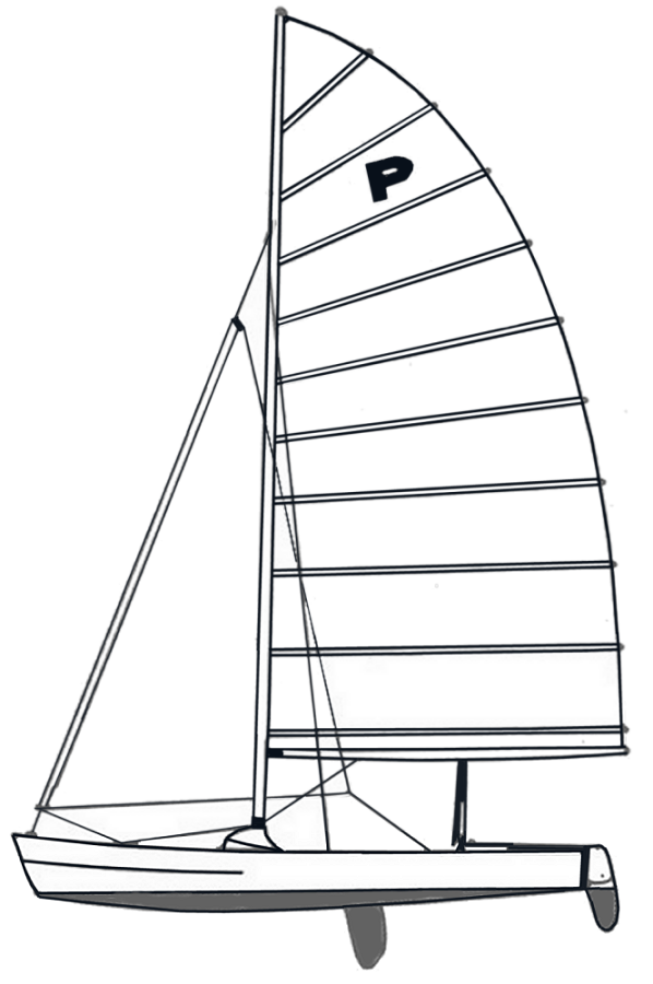 This is a self-made drawing of a Pacific Catamaran PC-19